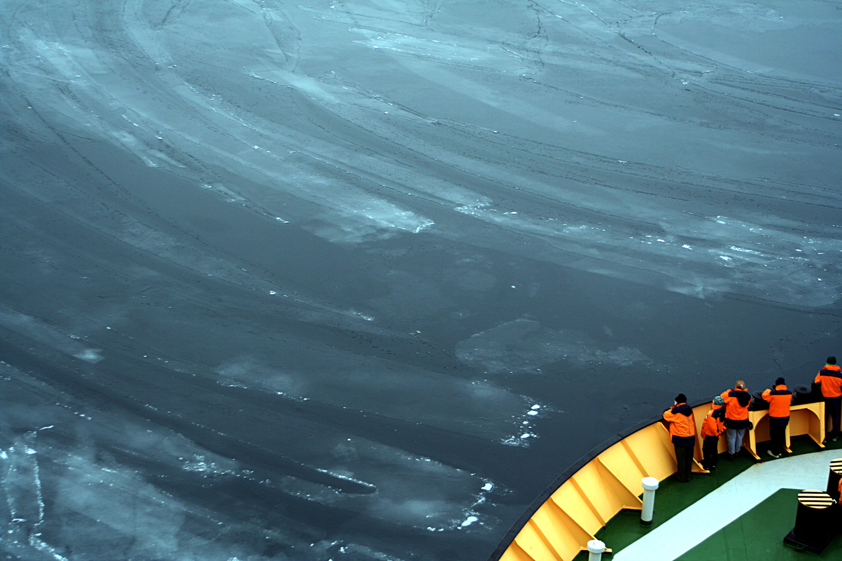 Nilas Sea Ice Baffin Bay Arctic